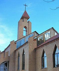 Facade of the Our Lady of Fatima parish in Konotop (Ukraine)